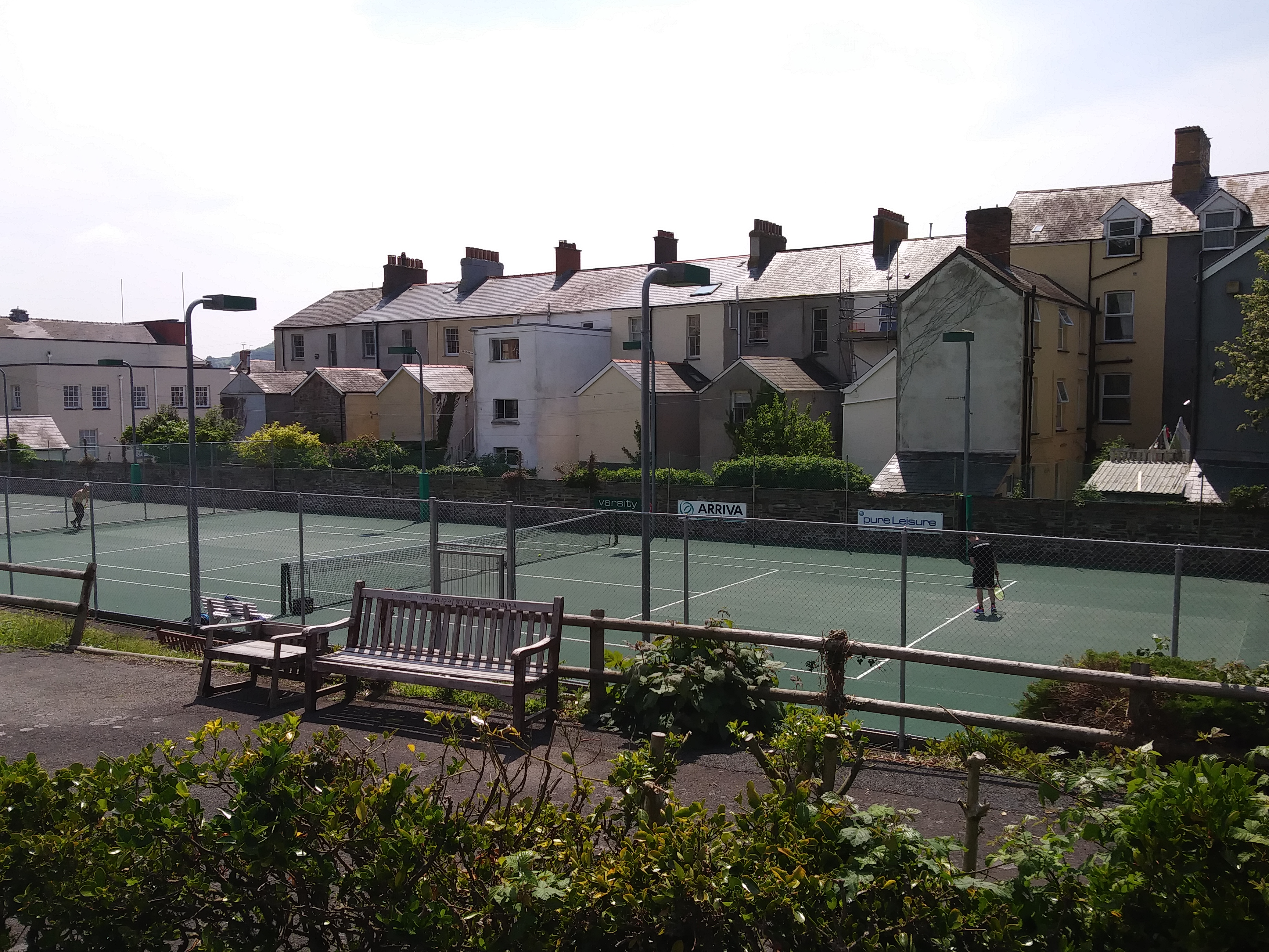 Aberystwyth Tennis Club court